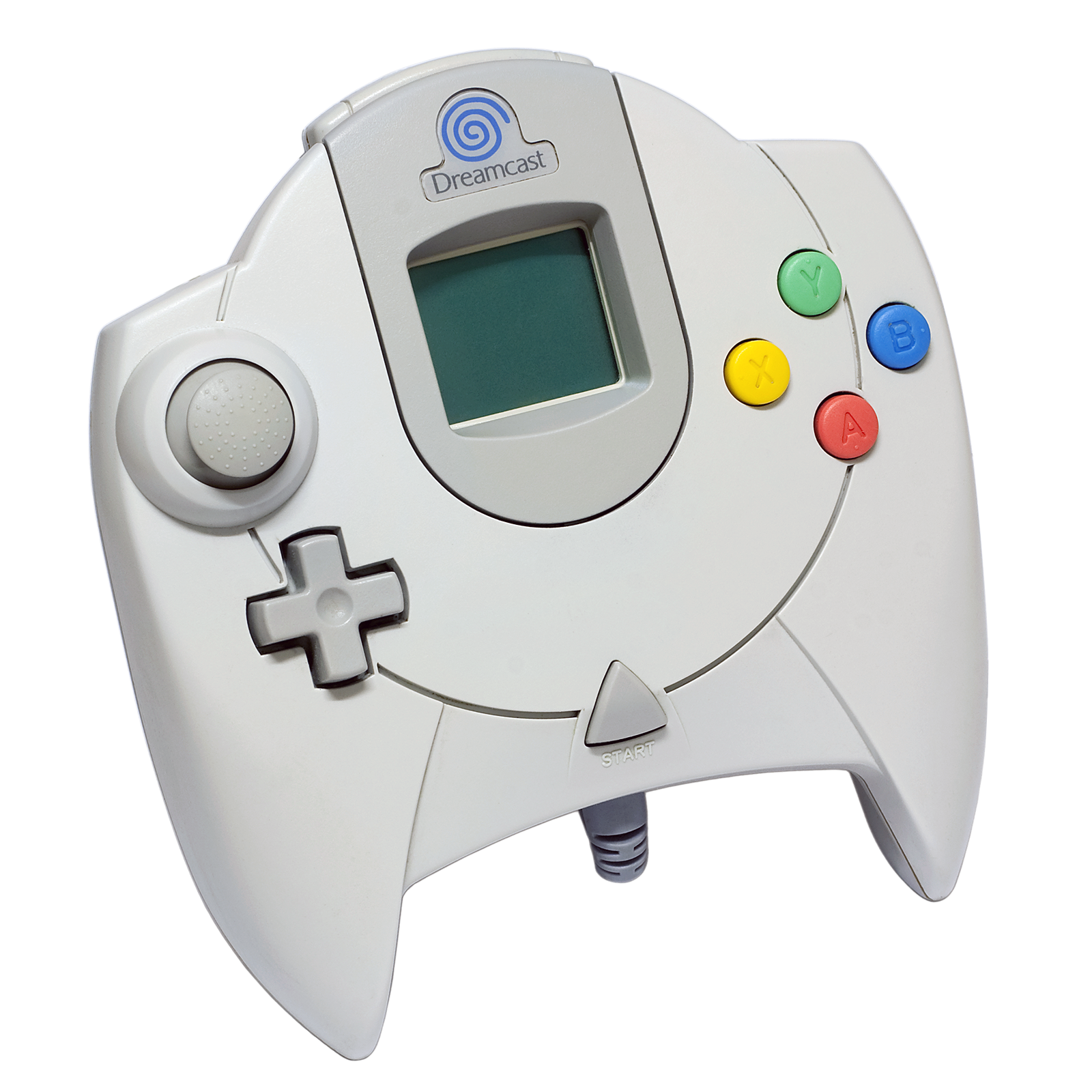 A PAL Sega Dreamcast Controller with VMU.